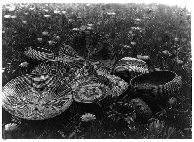 Basketry of the Mission Indians